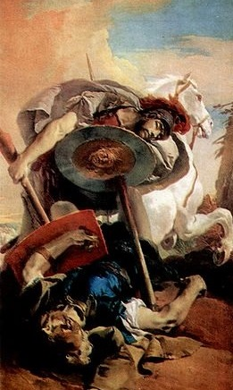 Detail from Tiepolo's painting